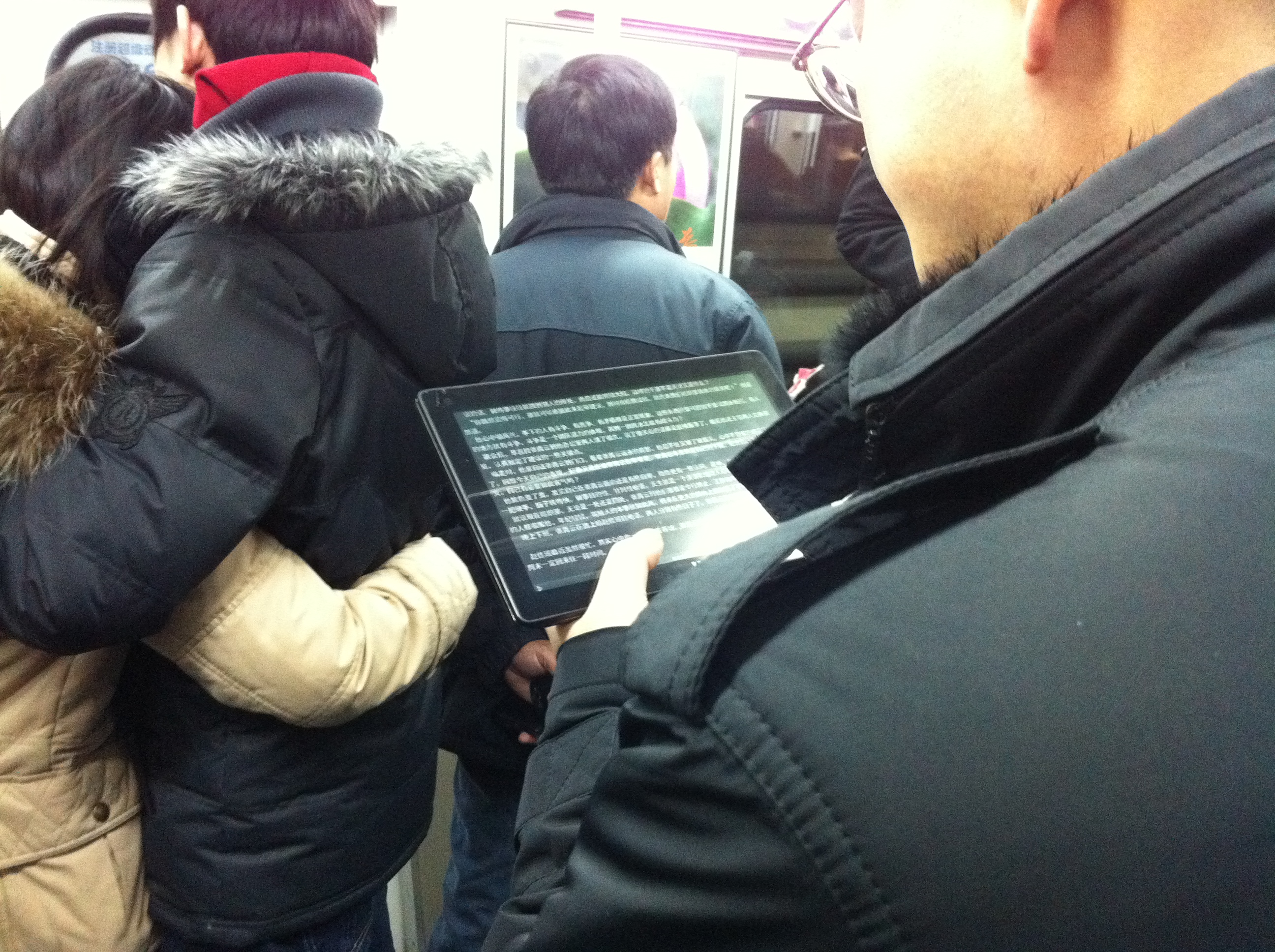 This guy is reading a novel on a shanzhai android powered tablet.